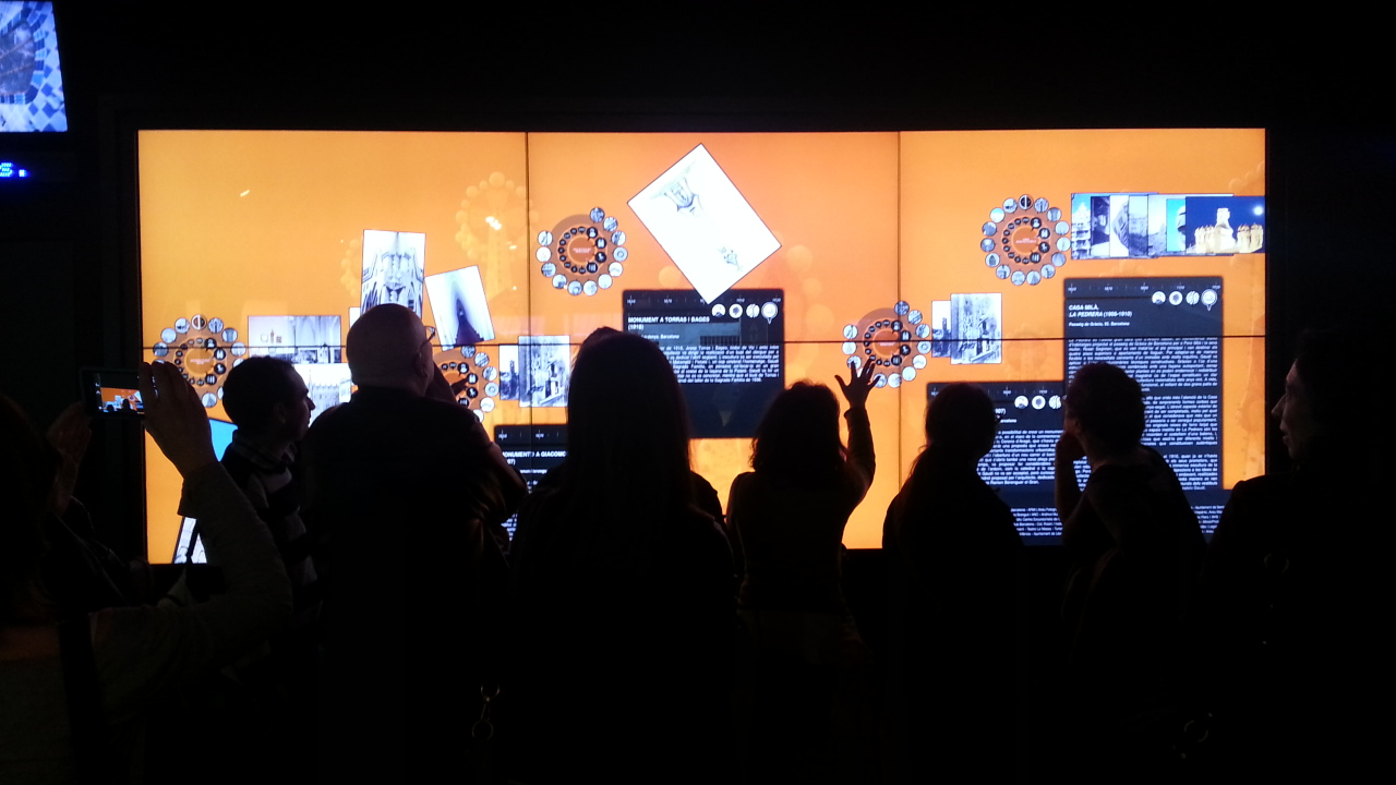 Interactive and multiuser boards of Gaudí Experiència, with all life and works of Antoni Gaudí in 9 languages.